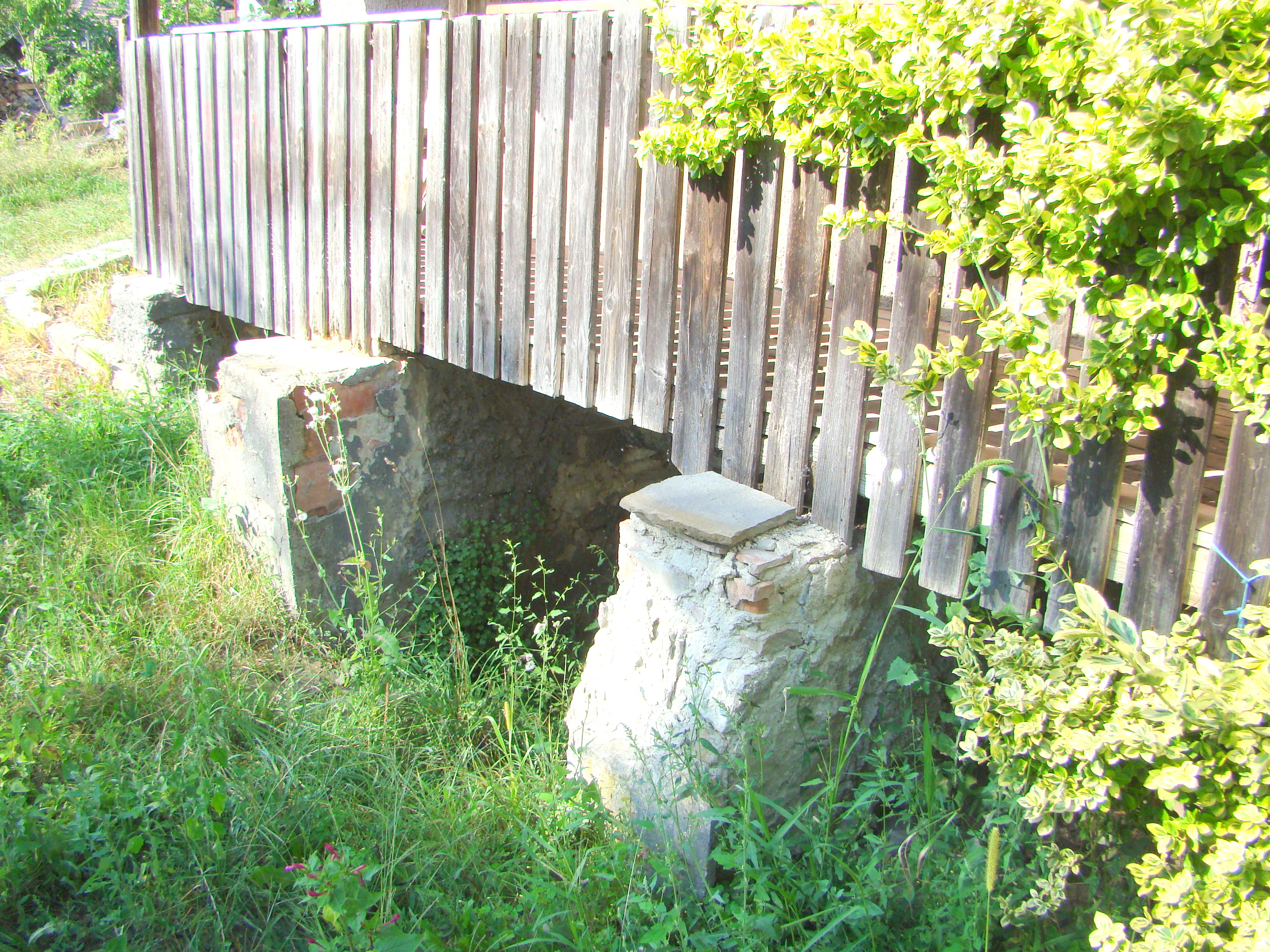 Former Greek Catholic parish house in Porumbenii Mari, Harghita county, Romania